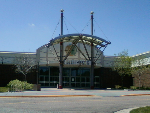 The northeast entrance to Westminster Mall in Colorado. Building was demolished sometime between July of 2011 and March of 2012.